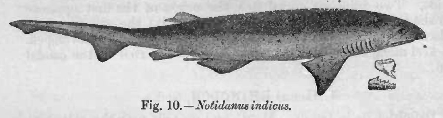 Notidanus indicus = Notorynchus cepedianus (Péron, 1807)